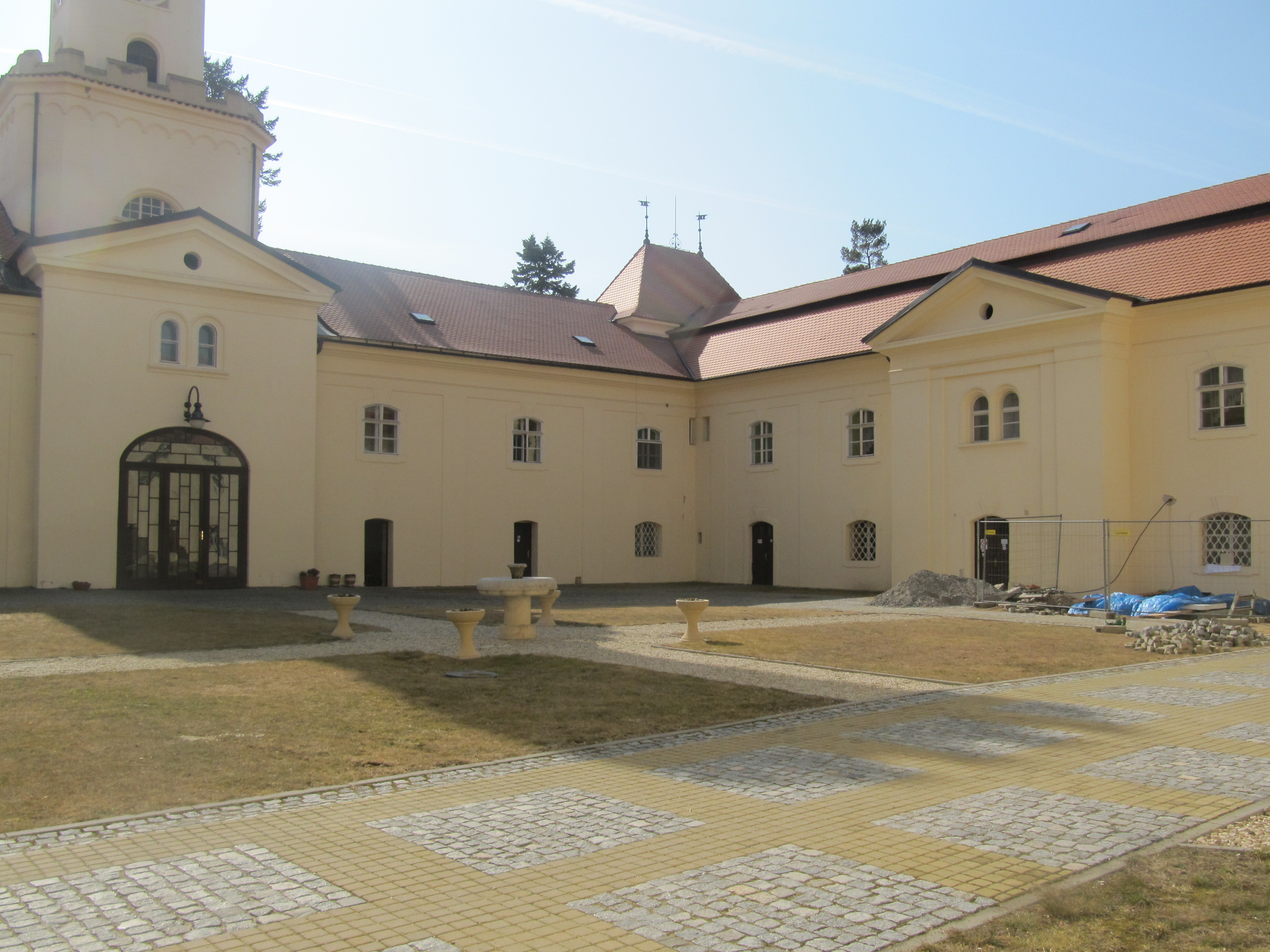 Sokolnice in Brno-Country District, Czech Republic. Castle, courtyard.